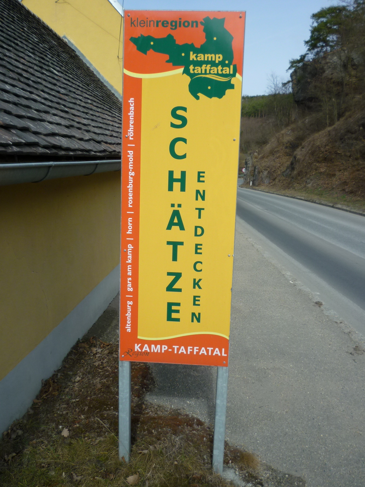 Sign Kleinregion Kamp-Taffa-Tal